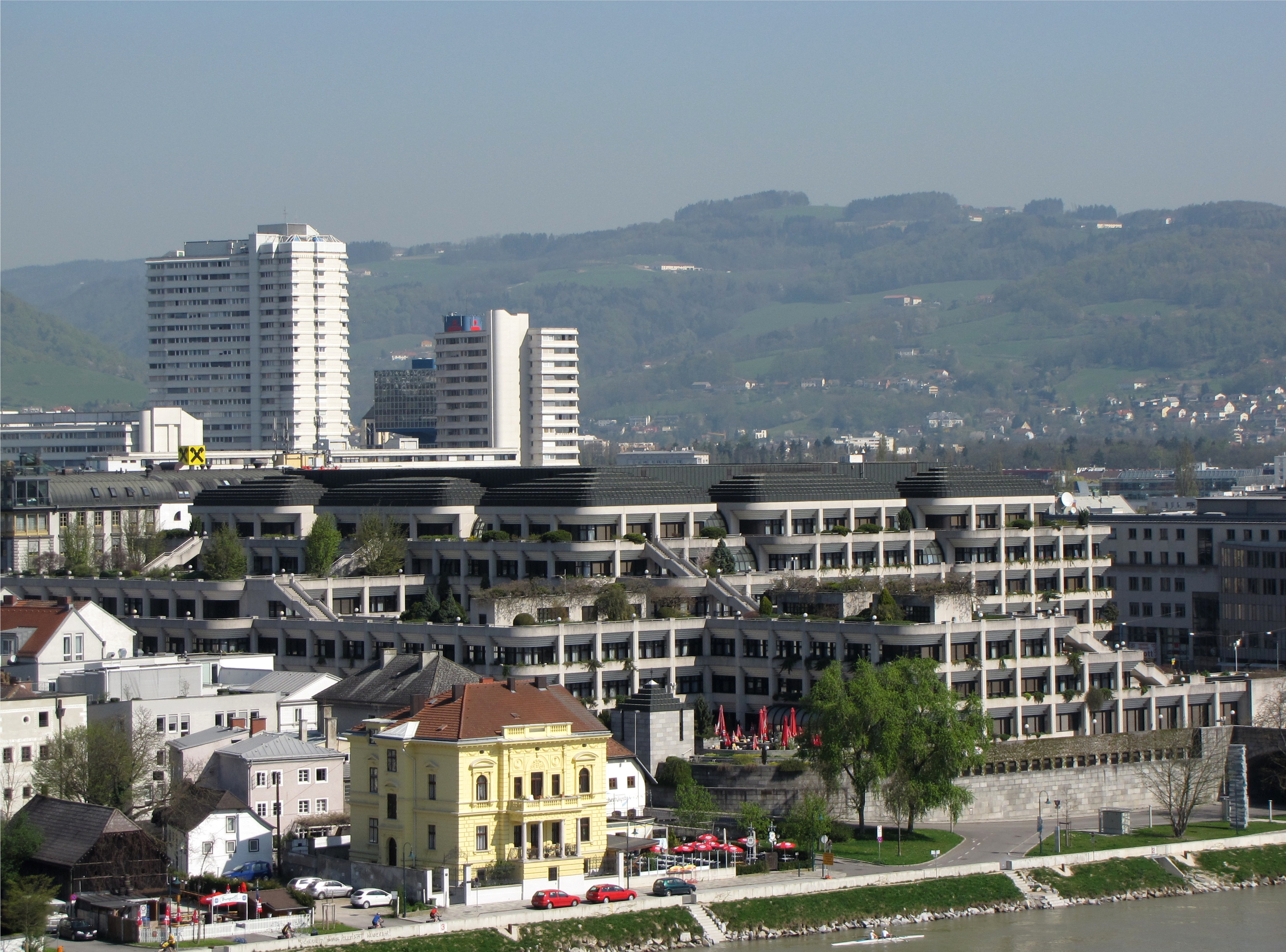 Linz-Urfahr: New town hall in the foreground, Lentia 2000 in the background. View from the Schlossberg.